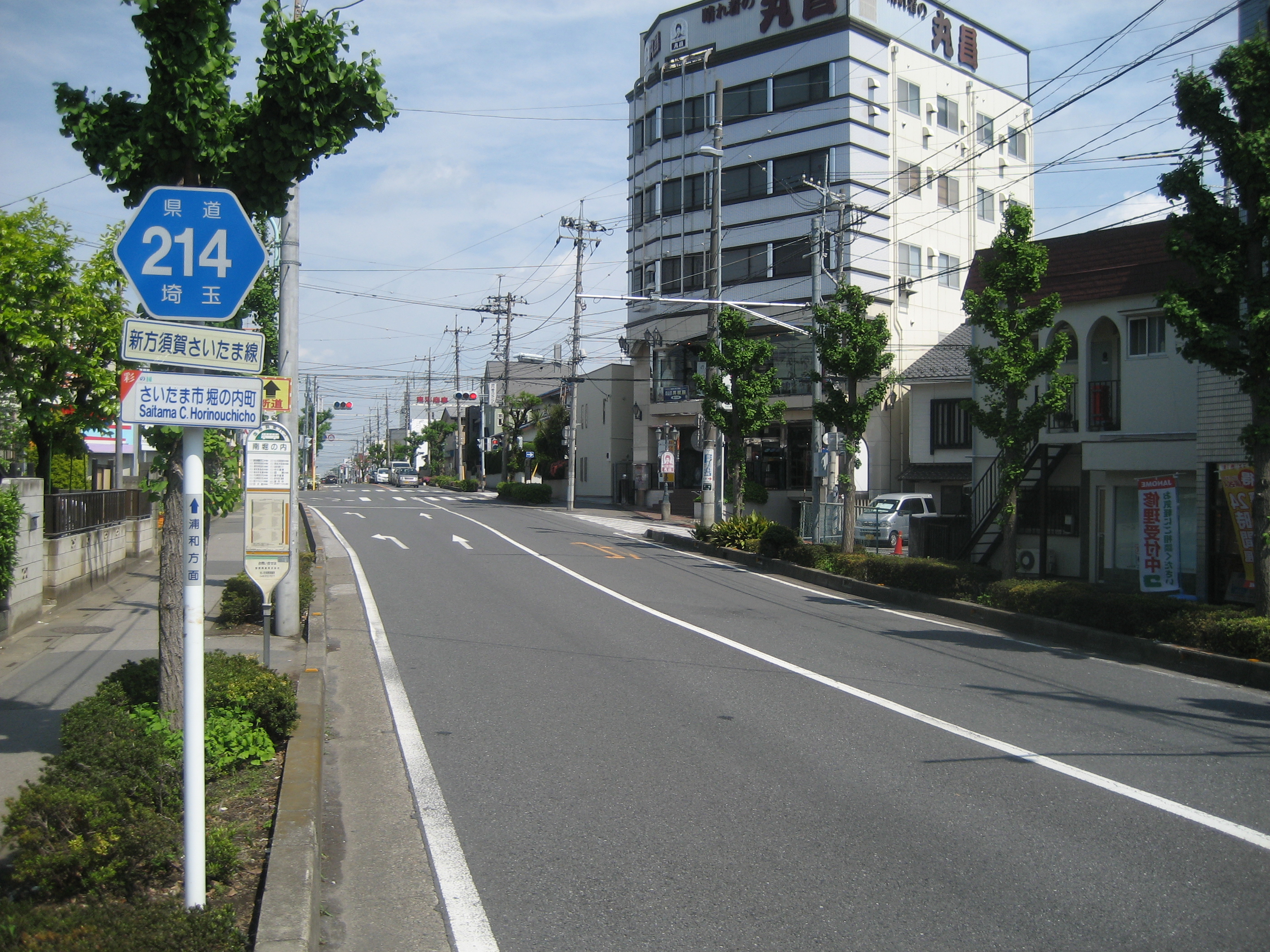 The Saitama Prefectural Road Route 214 in Horinouchicho, Omiya-ku, Saitama City, view towards Iwatsuki